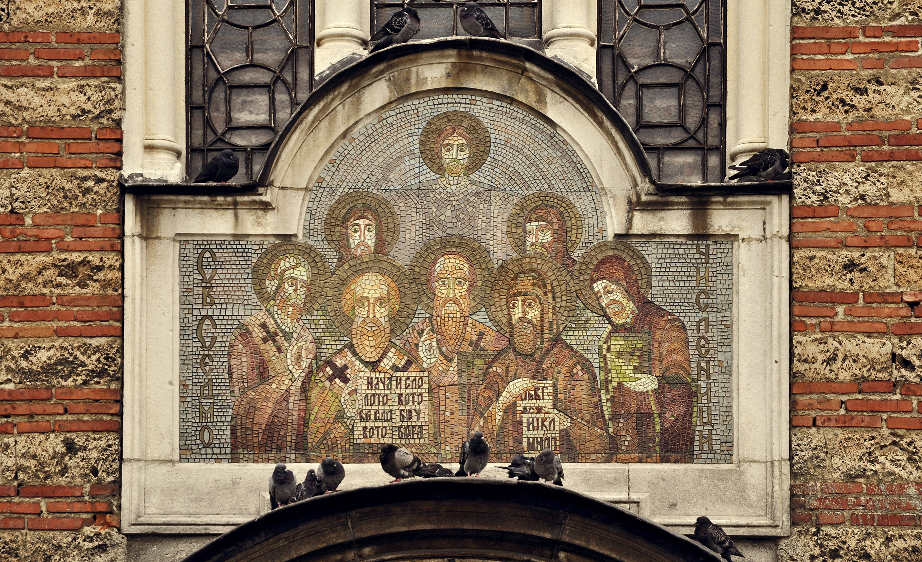 Exterior mosaic icon of Sveti Sedmochislenitsi (The Seven Saints) above the main gate of the church of the same name in Sofia, Bulgaria. The Seven Saints (Apostles) are: Saints brothers Cyril and Methodius, St. Clement of Ohrid, St. Naum of Preslav, St. Gorazd, St. Sava Sedmochislenik and St. Angelarius. Jesus Christ is depicted above the group of the seven saints.